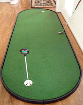 Indoor Golf Green